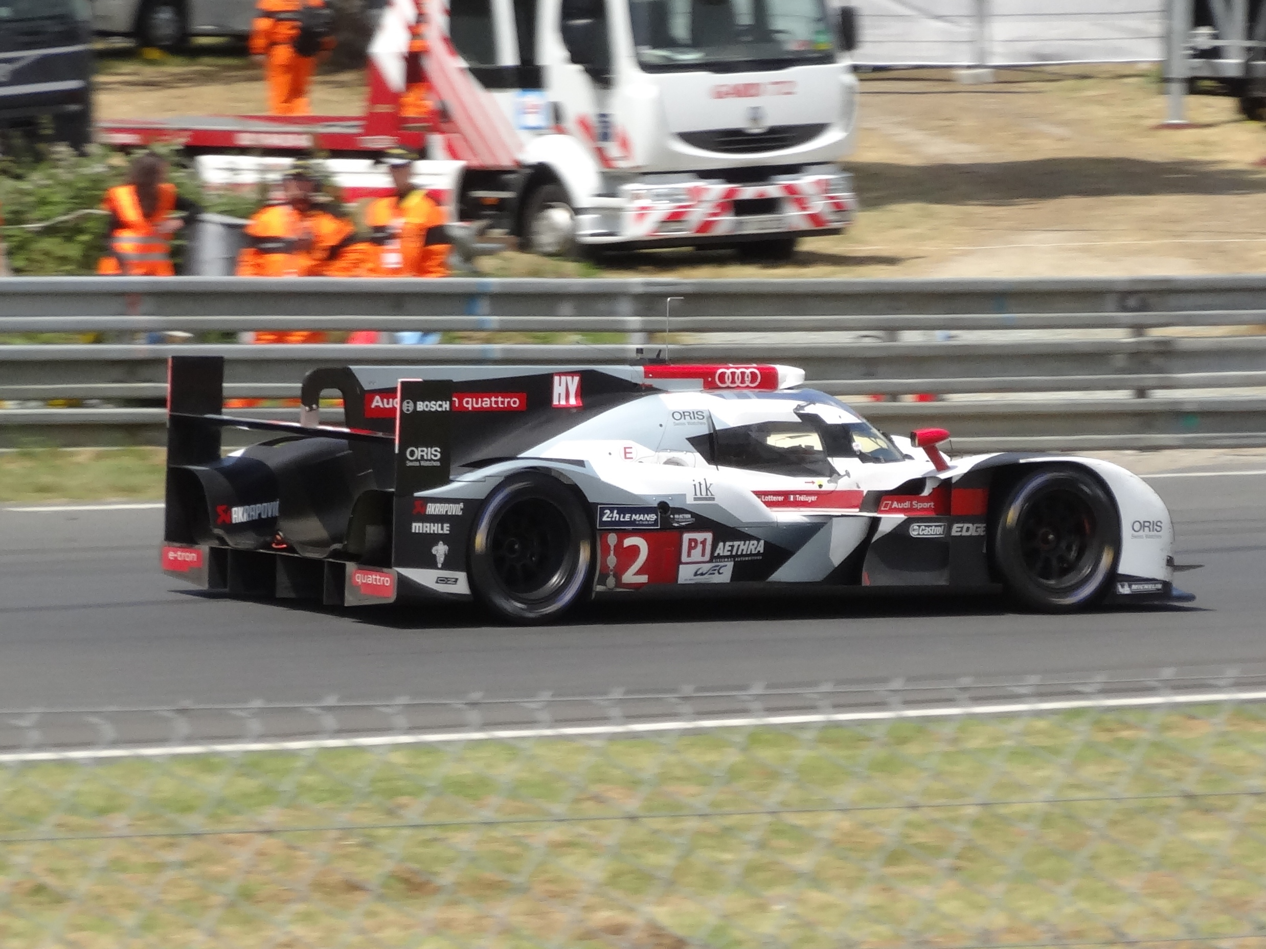 Audi R18 etron N°2, winning Le Mans 2014